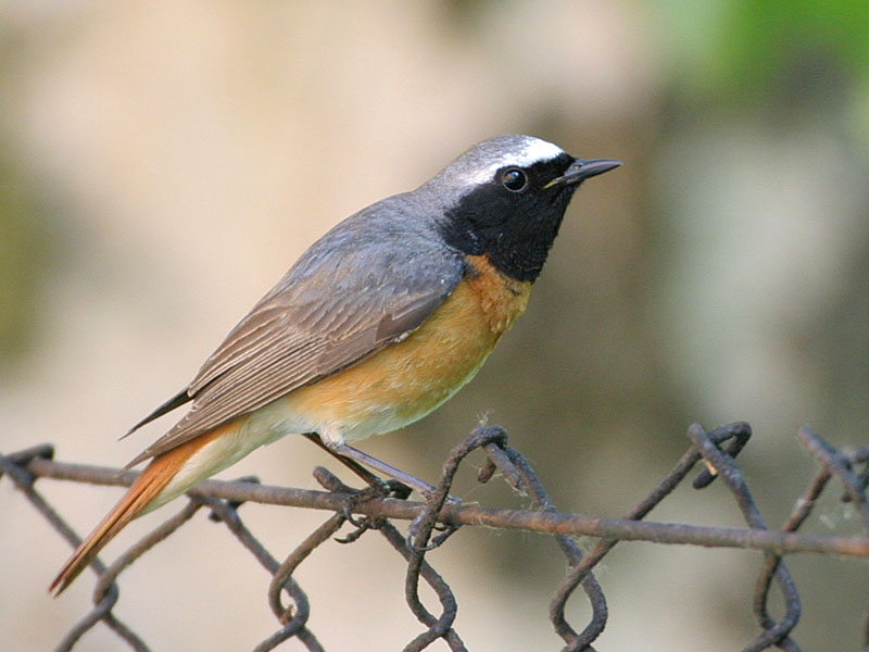 male Common Redstart